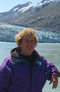 Astrophysicist Joan Feynman